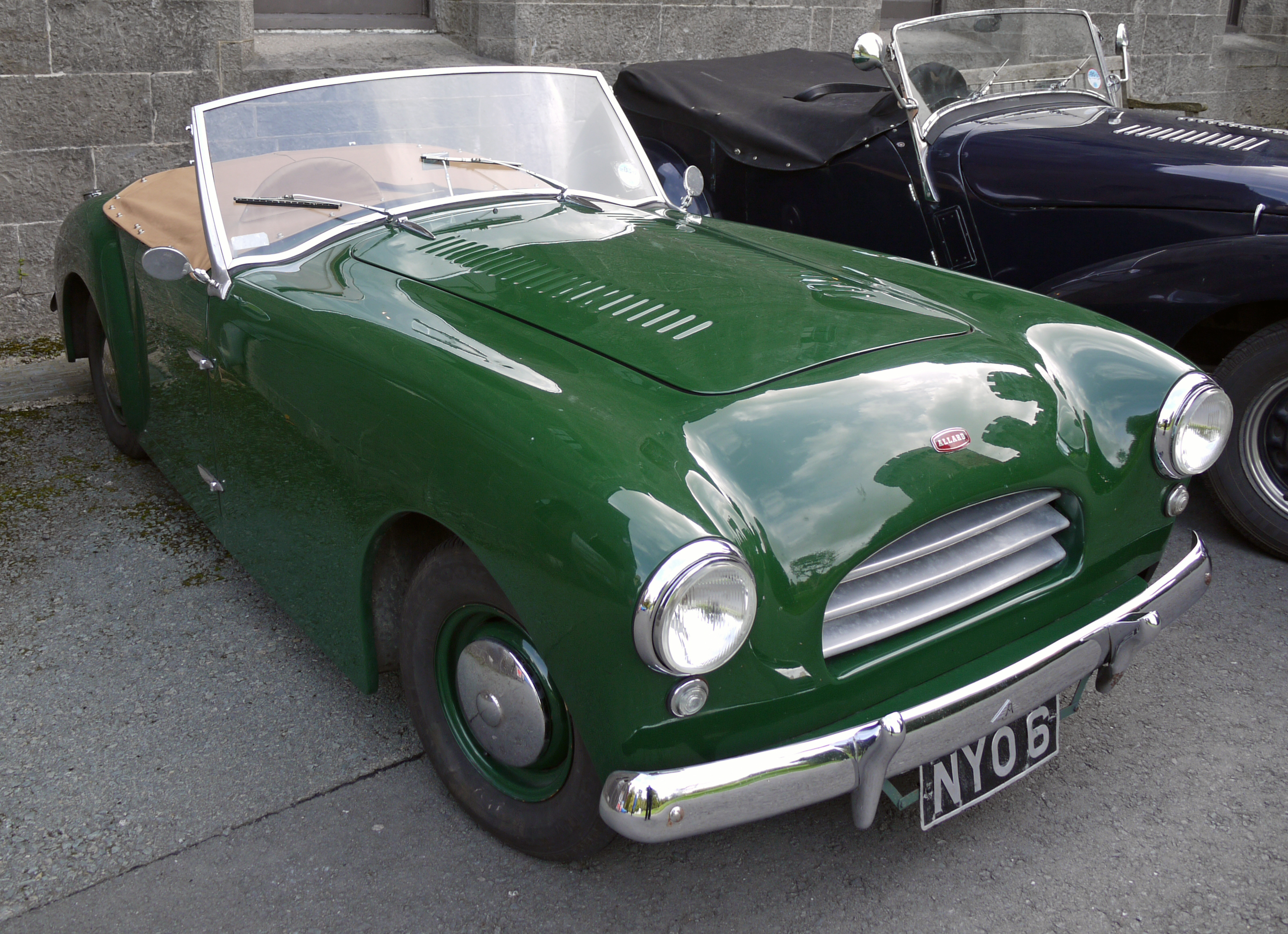 An Allard Palm Beach 21Z with the 2.3 litre Zephyr six, seen at Penrhyn Castle, Bangor, North Wales